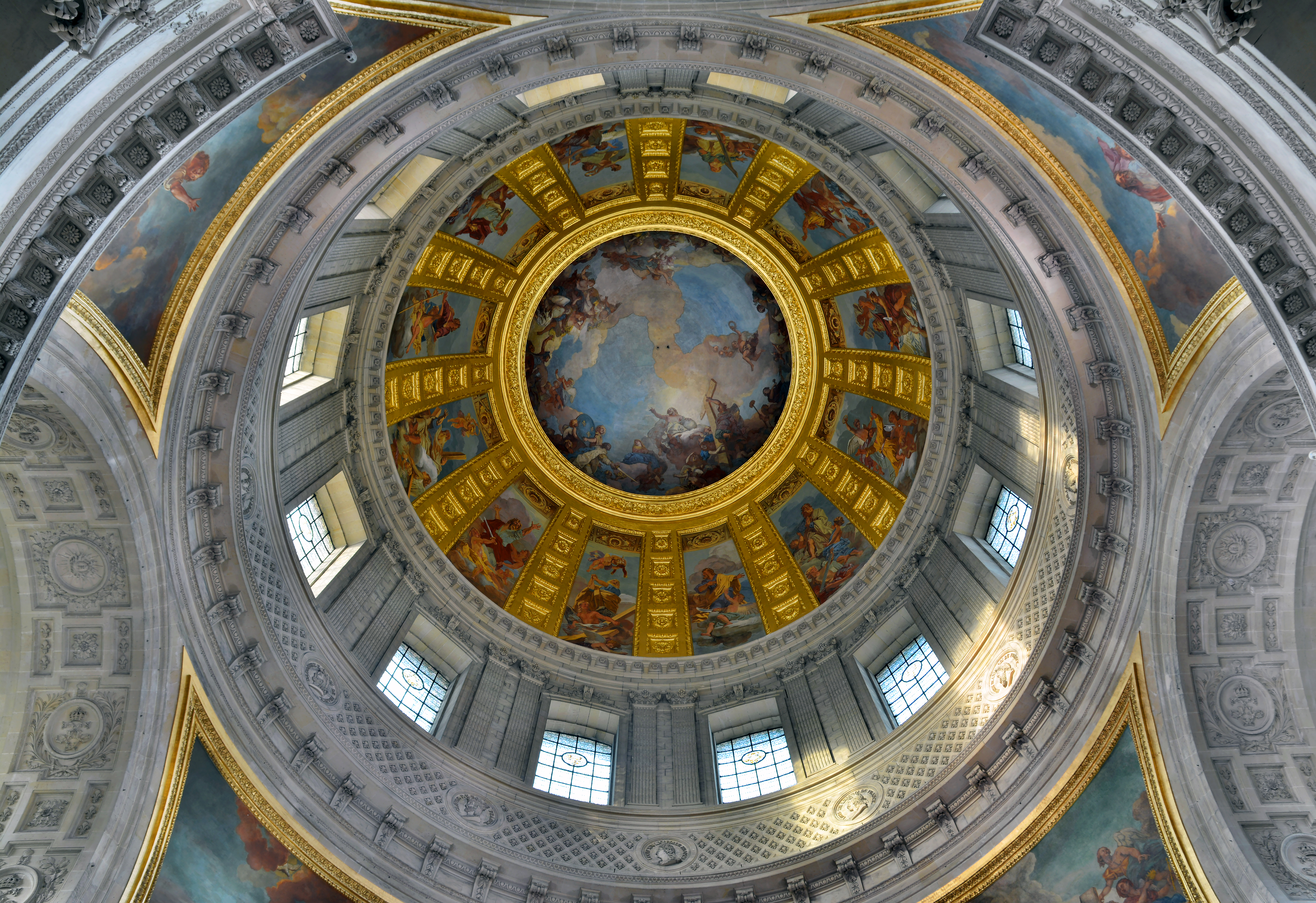 De La Fosse's allegories on the dome over Napoleone's tomb